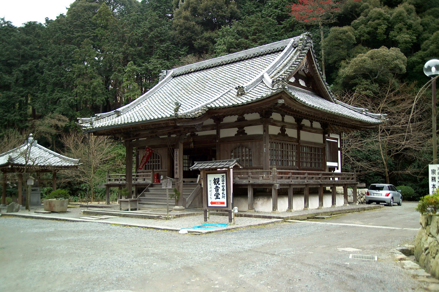 Bimyo-ji at Mii-dera, a Buddhist temple in Otsu, Shiga Prefecture, Japan. I took the photo and contribute my rights in it to the public domain; individuals and organizations retain rights to images in it.